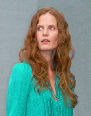 Rebecca Mader at the "True Blood" Season Two Premiere Party - Paramount Theater, Paramount Studios, Hollywood, Calif. - June 9, 2009